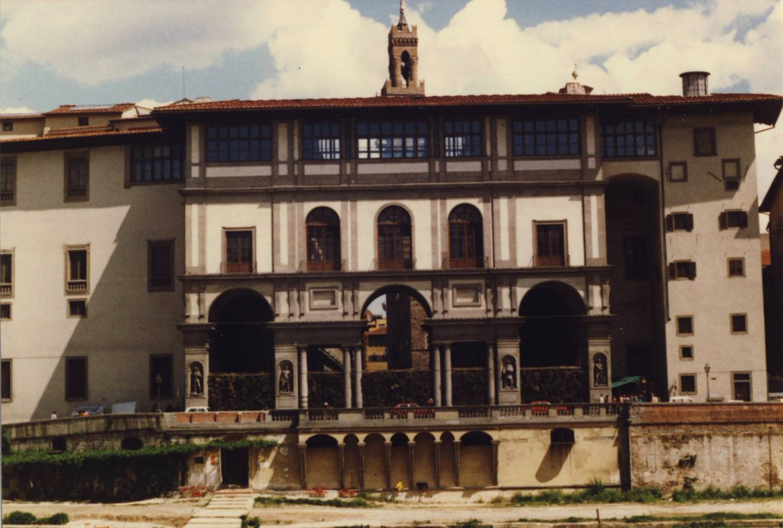 Florence, Ufficio